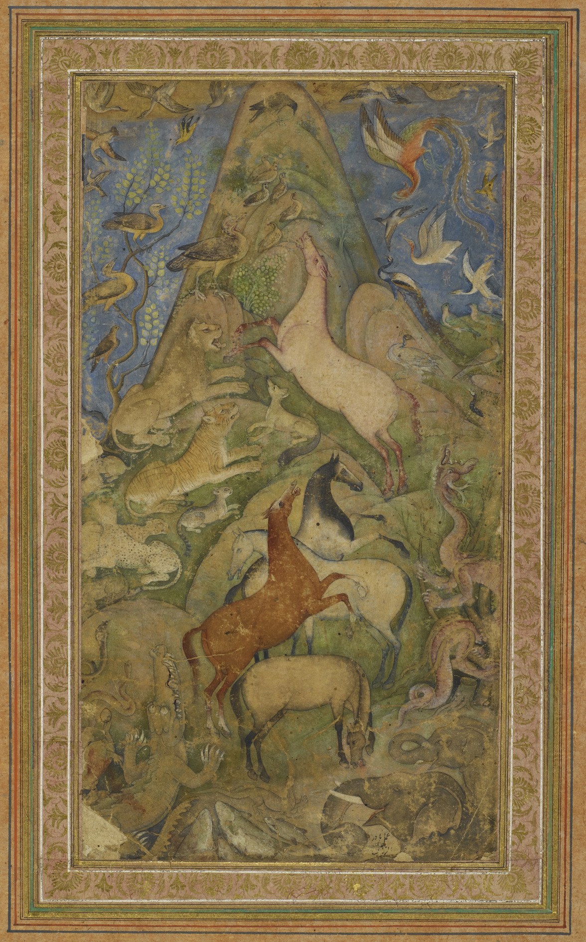 An assembly of animals and birds. A crow and partridges sit on a hill at top centre while a simurgh, an oriole and other birds fly around. The assembly beneath includes a pink horse, a lion, a tiger, leopards, a jackal, a cat, cobras, a crocodile, elephants, a dragon and rabbits, all encircling a central group of four horses. Opaque watercolour. Gouache; inner border of gilt flowers, outer pink border. 217 by 117 mm; page 410 by 285 mm.